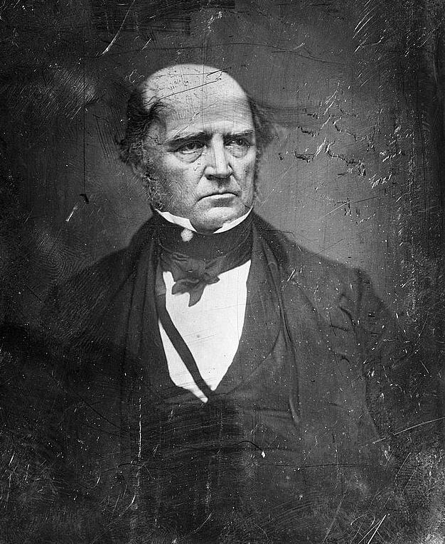 Levi Woodbury, half-length portrait, head three-quarters to the right